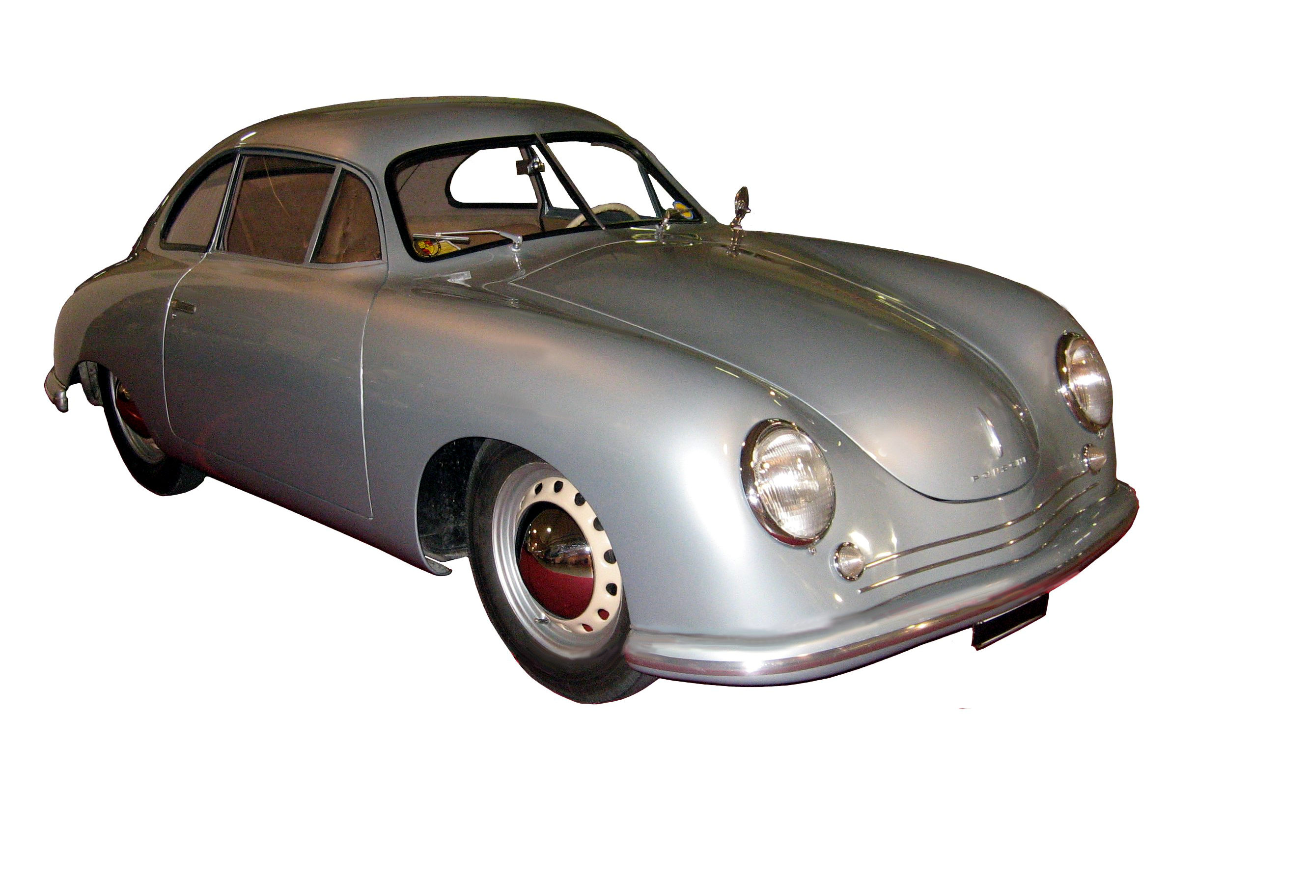 Subject:Porsche 356 Pre-A Coupé (1948) Author:Luc106 Date:November 24th, 2007 Event: Marke-Retrò 2007 Place/Country: Cesena (FC), Italy I release all rights in the public domain.